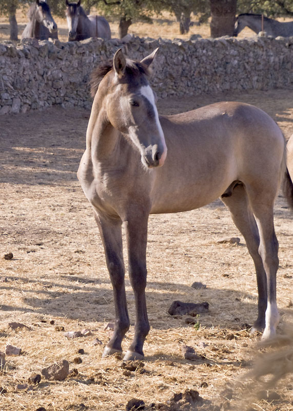 Potro de Los Pedroches